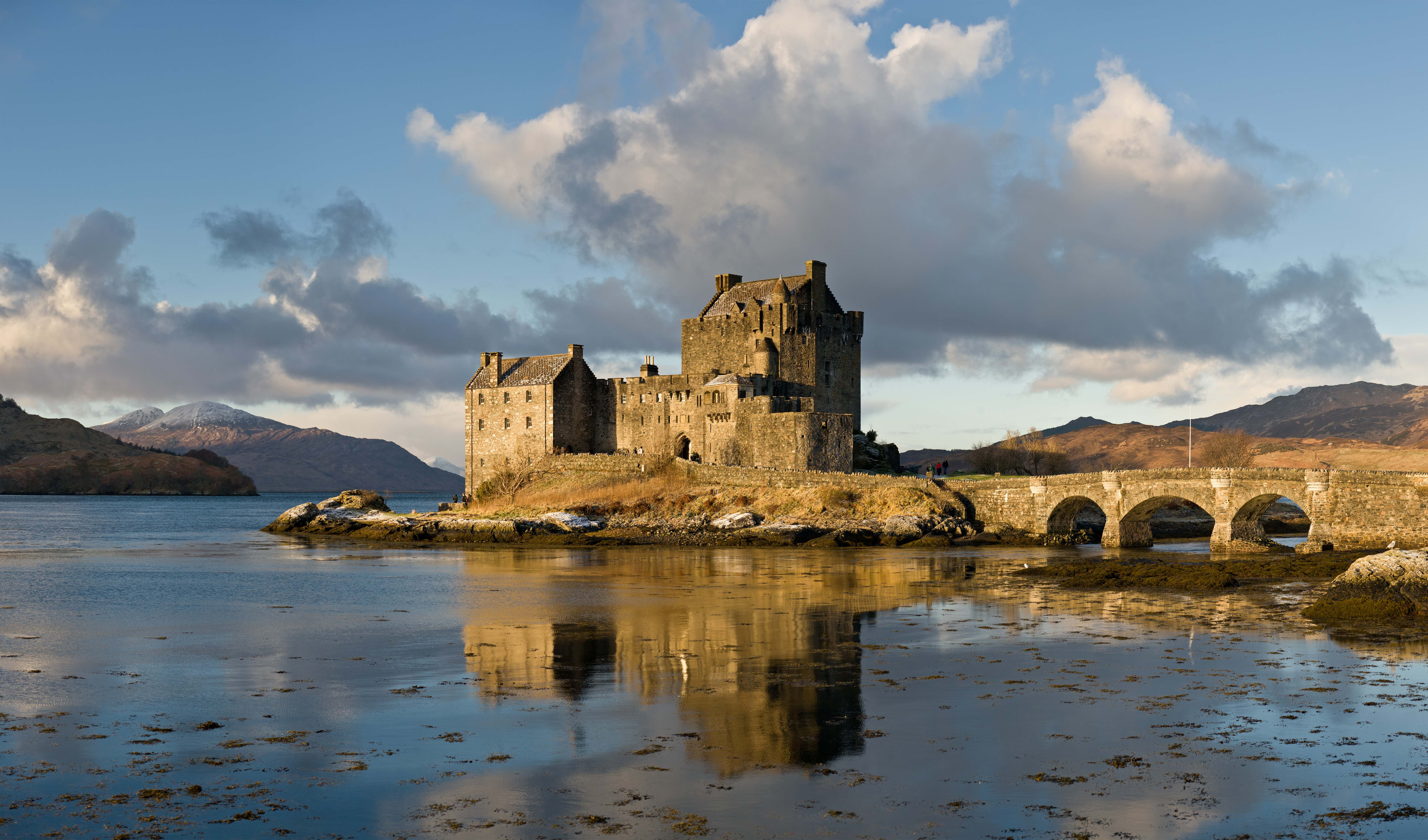 Eilean Donan Castle, as viewed from the south-east at sunrise. Taken by myself as a 2×6 segment panorama with a Canon 5D and 85mm f/1.8 lens.